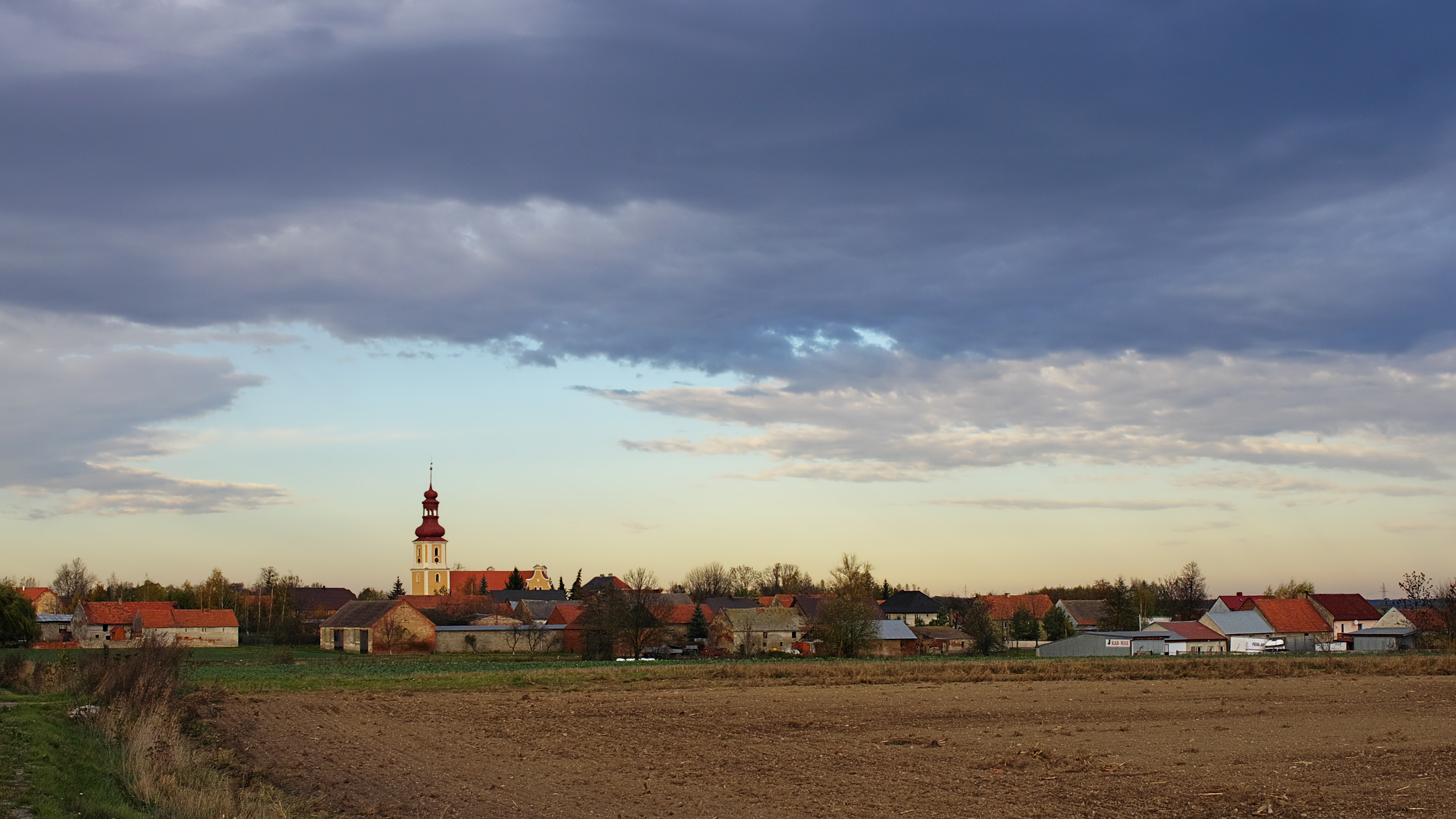 Panorama of Makowice